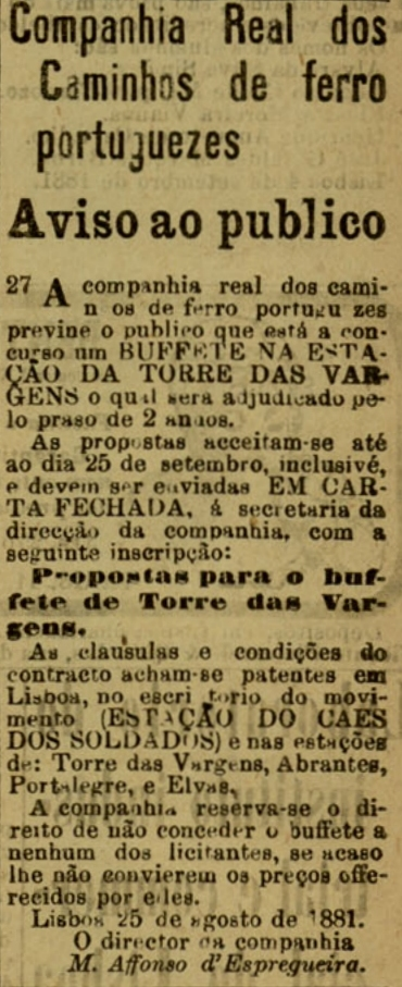 Public announcement of the Companhia Real dos Caminhos de Ferro Portugueses (Royal Company of the Portuguese Railways), about the opening of proposals for the renting of the Torre das Vargens train station canteen. This image was published on the Diario Illustrado newspaper No. 2989, of 7th September 1881, and scanned by the Biblioteca Nacional de Portugal.